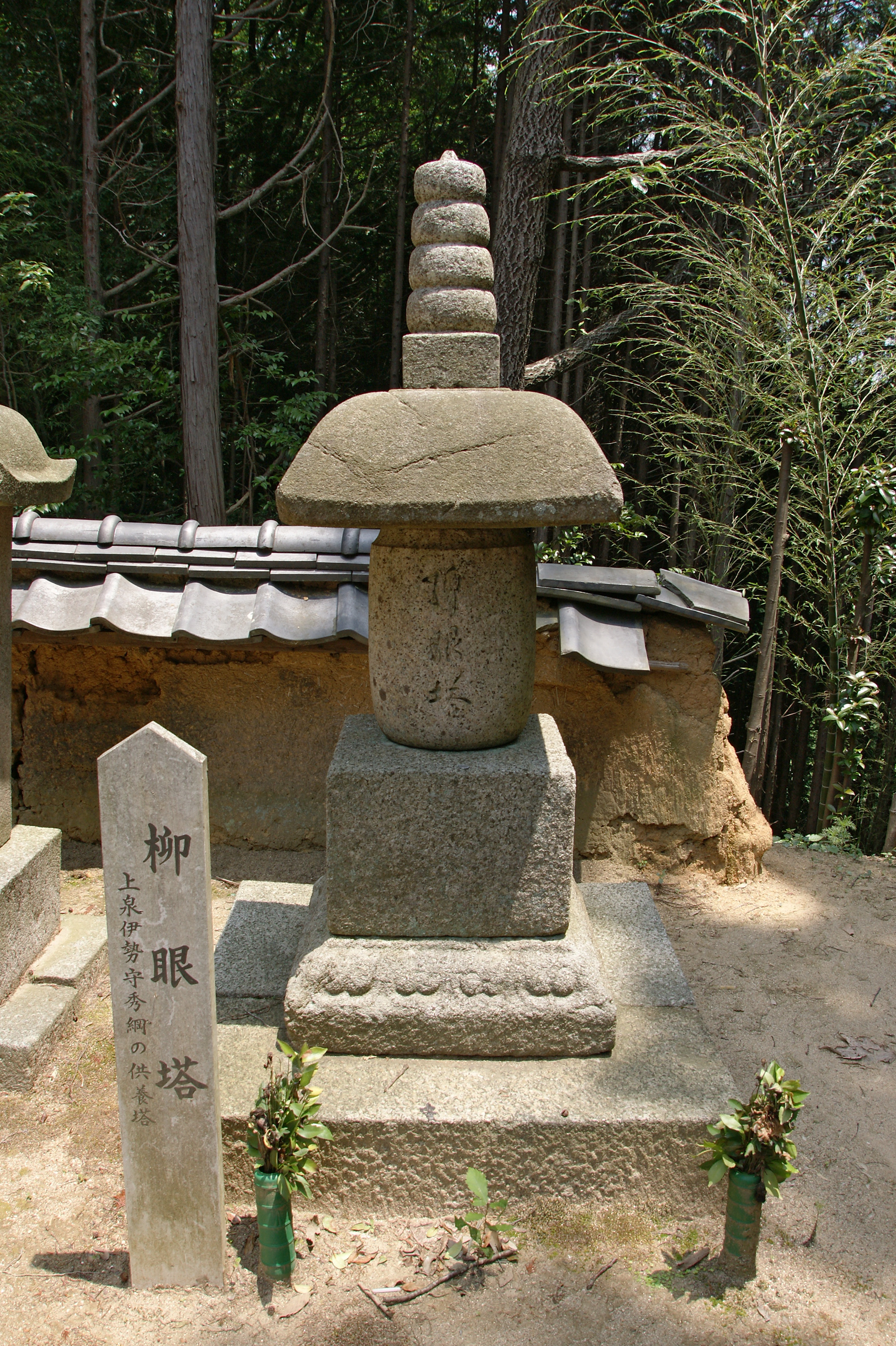 Hotokuji in Nara, Nara prefecture, Japan